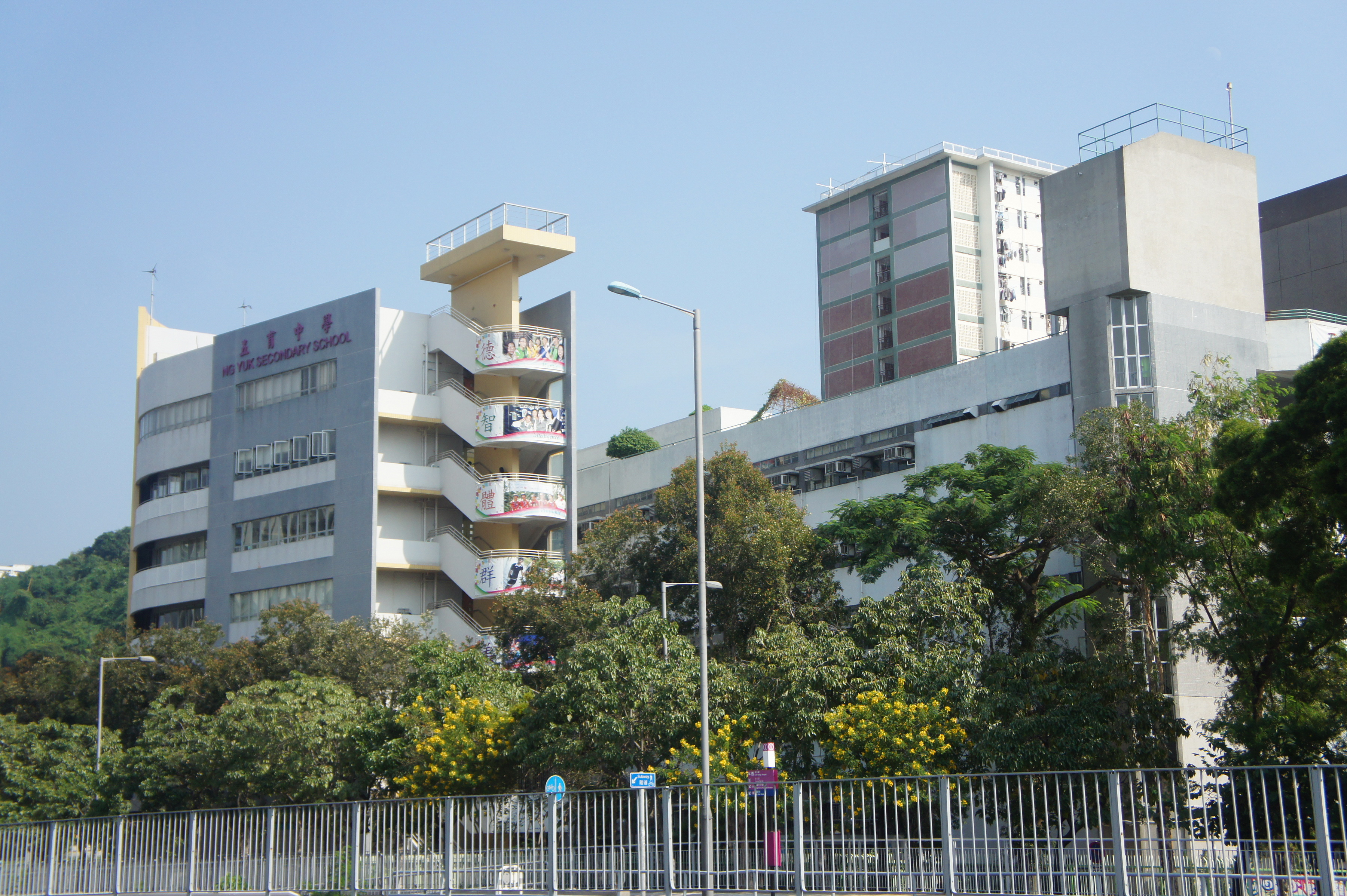 Ng Yuk Secondary School, Tai Wai, New Territories, Hong Kong.